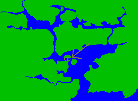 Rocky Island pin pointed